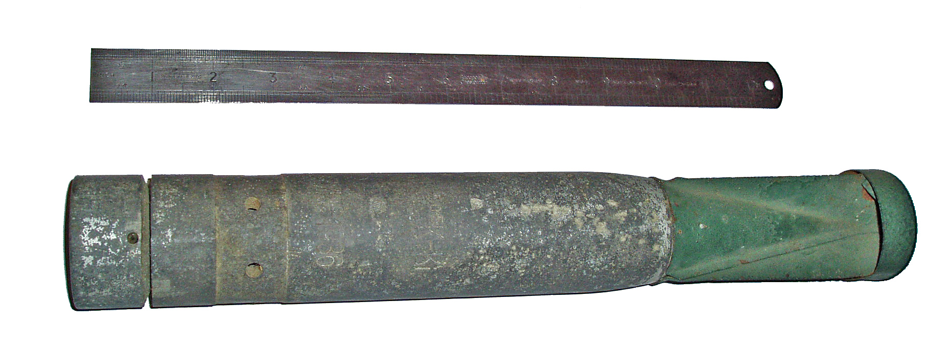 A Luftwaffe 1kg incendiary bomb (Brandbombe) presumed to be of the B1 type. This bomb has been defused and the filling removed and is dated 1936. It fell on an aunt's house and, failing to detonate, was defused by the Bomb Disposal people, sometime during World War II. The ruler is a standard one-foot (300mm) steel rule.